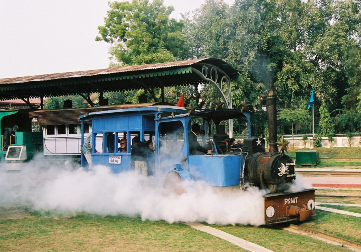 Delhi Railway Museum. The Monorail steam train in operation. 17th February 2005 Photographer - A.M.Hurrell Camera - Minolta X700 (35mm film) Modified - Scanned by film developer. File size and definition changed using Adobe Photoshop 5.0LE